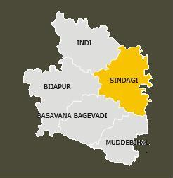 Sindagi bijapur